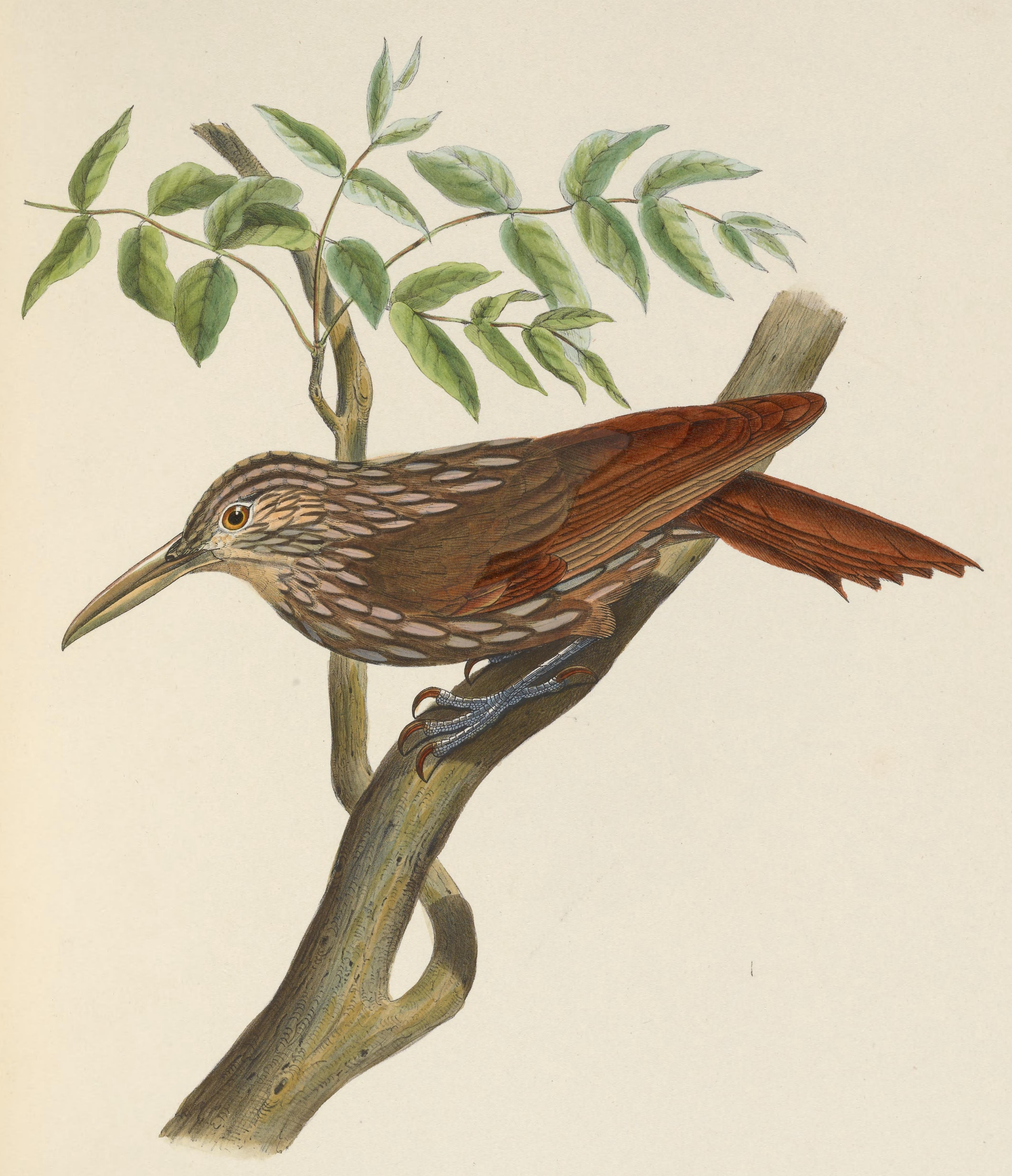 Dryocopus eburneirostris = Xiphorhynchus flavigaster mentalis (Subspecies of Woodcreeper)